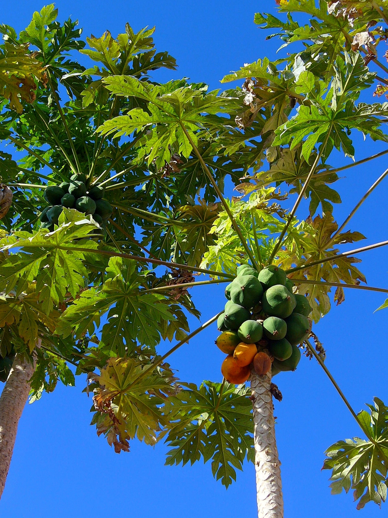 Carica papaya, Caricaceae, Papaya, habitus; Puerto de la Cruz, Tenerife, Spain. The leaves are used in homeopathy as remedy: Carica papaya (Cari-p.)